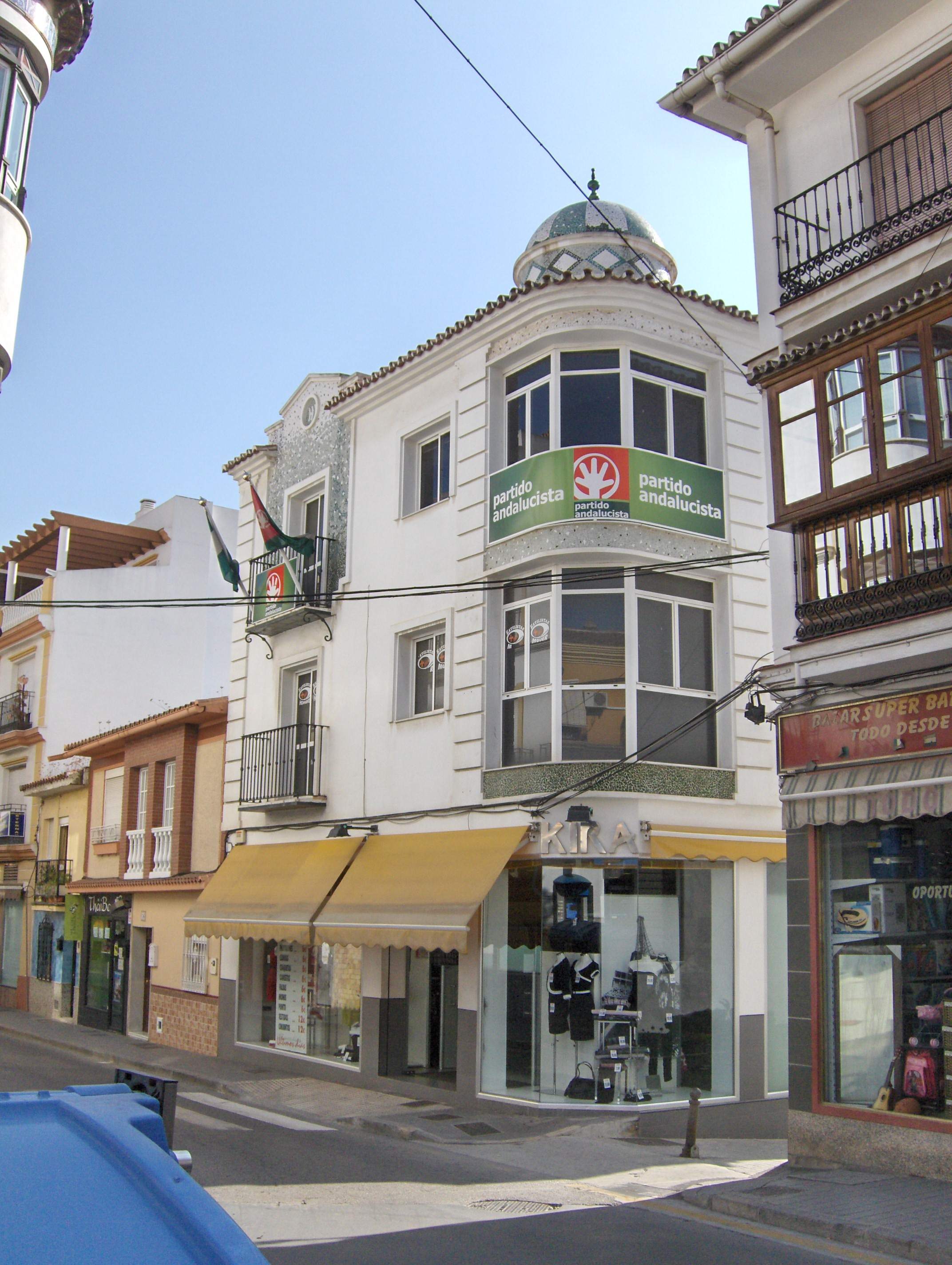 Office of Partido Andalucista in Vélez-Málaga, in Camino Viejo de Málaga Street